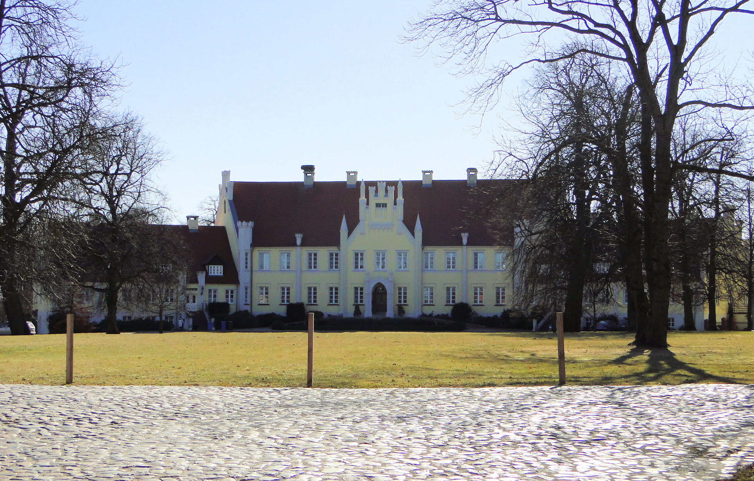 Manor house in Leppin, district Mecklenburg-Strelitz, Mecklenburg-Vorpommern, Germany